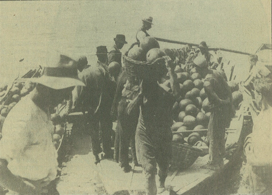 Marketplace in Belgrade about 1920. Srpski (latinica): Ponuda lubenica i dinja na beogradskoj obali, fotografisano oko 1920. godine